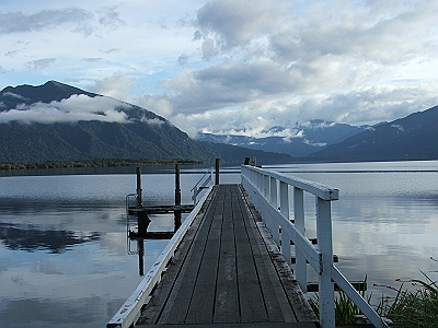 Lake Brunner, New Zealand